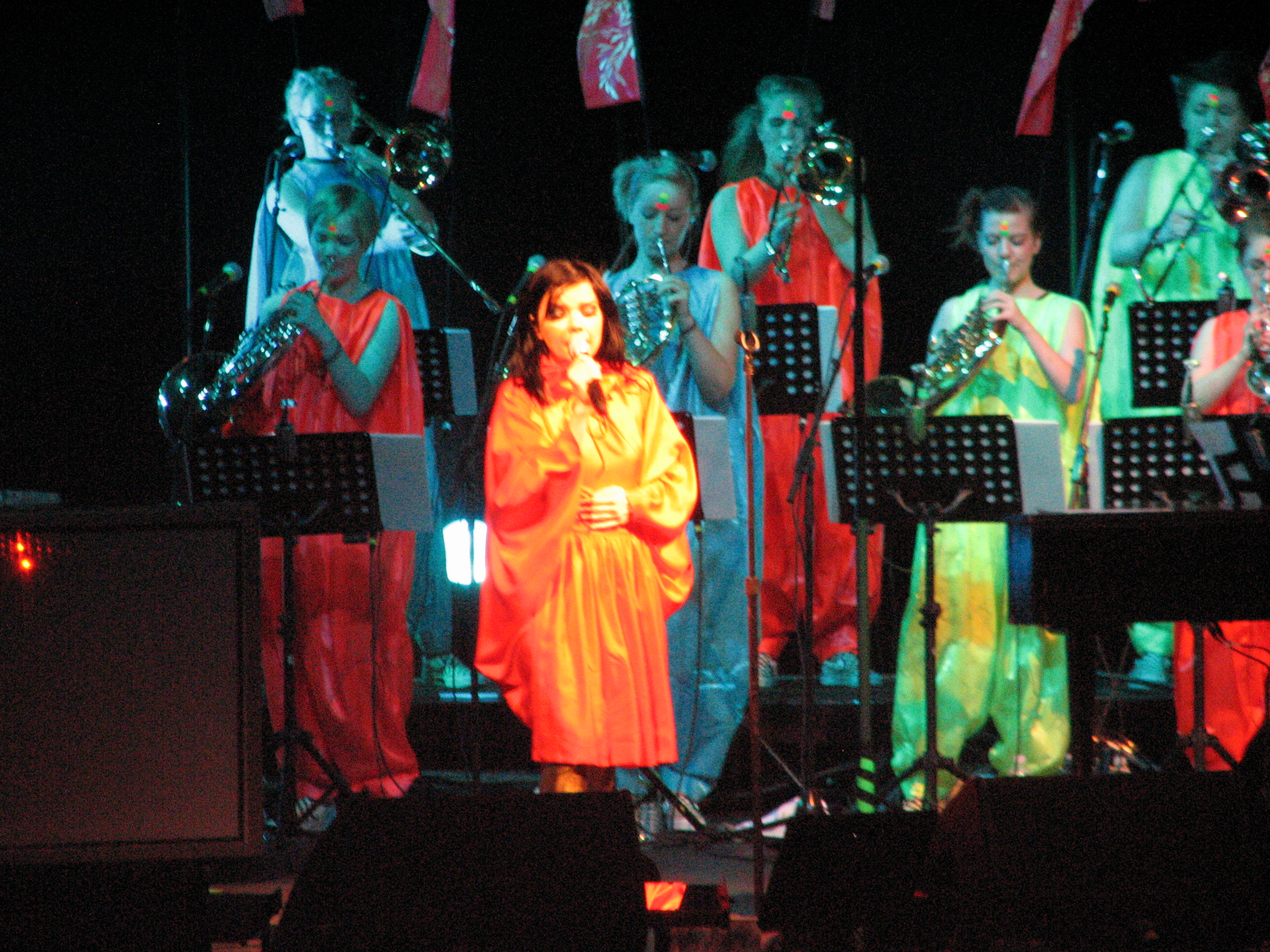 Björk at Radio City Music Hall.Bjork at Radio City Music Hall 2-May-2007